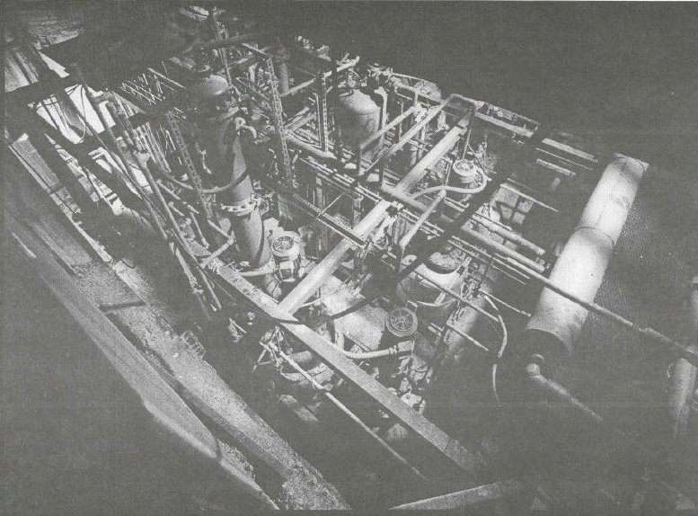 An Overhead view of Satyan 7, the Aum Shinrikyo chemical plant. From 'Proceedings of the Seminar on Responding to the Consequences of Chemical and Biological Terrorism'